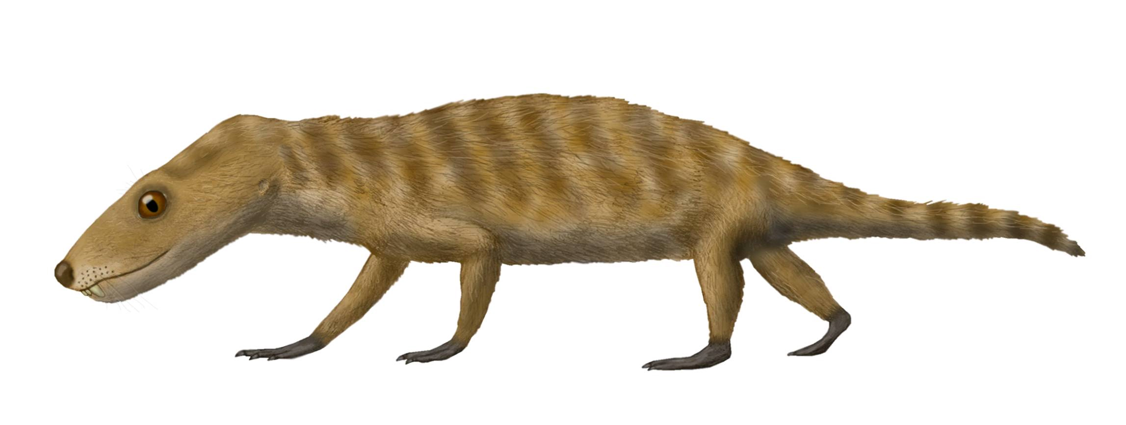 Life restoration of Probelesodon lewisi.